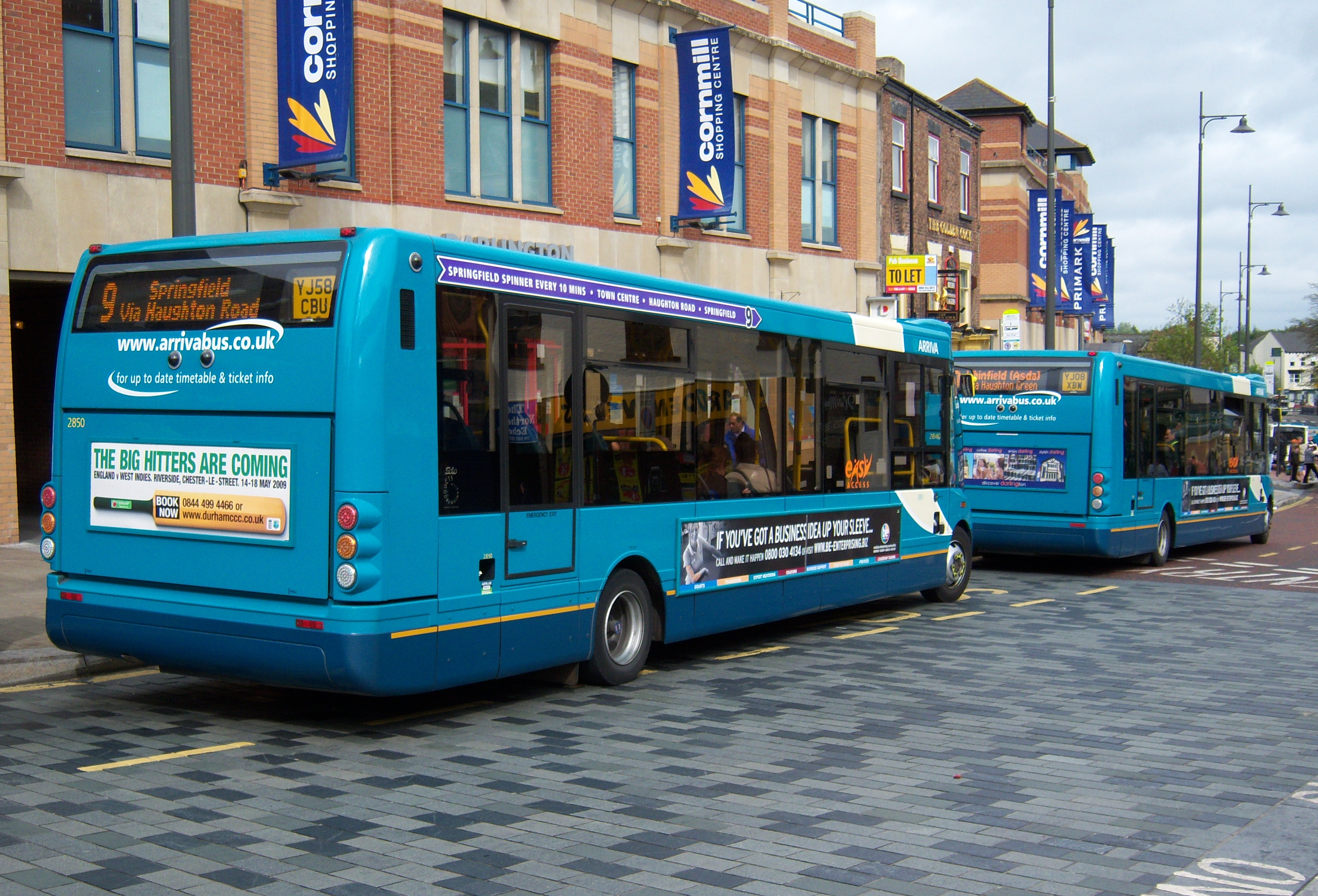 Arriva buses in Darlington